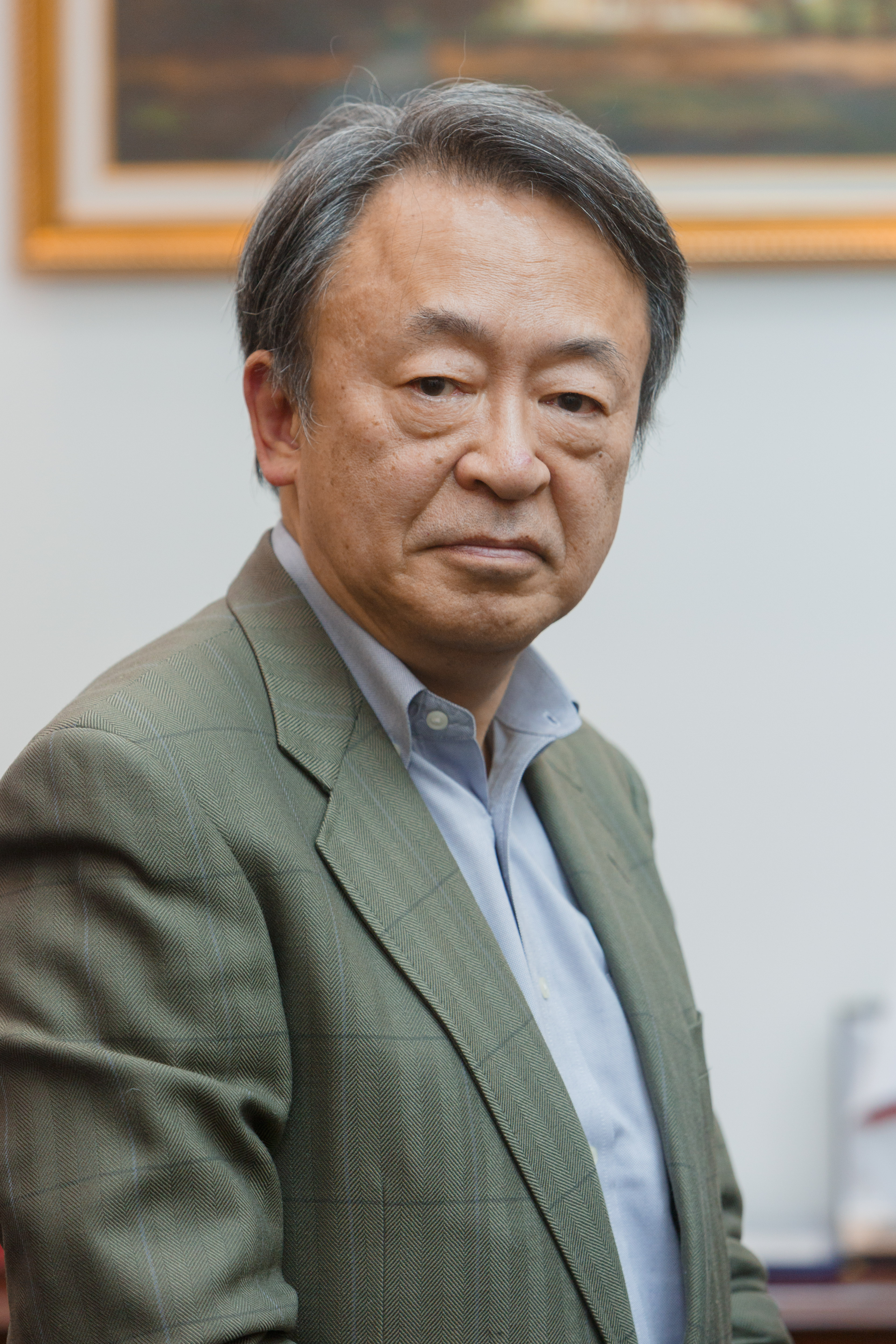 Ikegami Akira, Japanese TV presenter